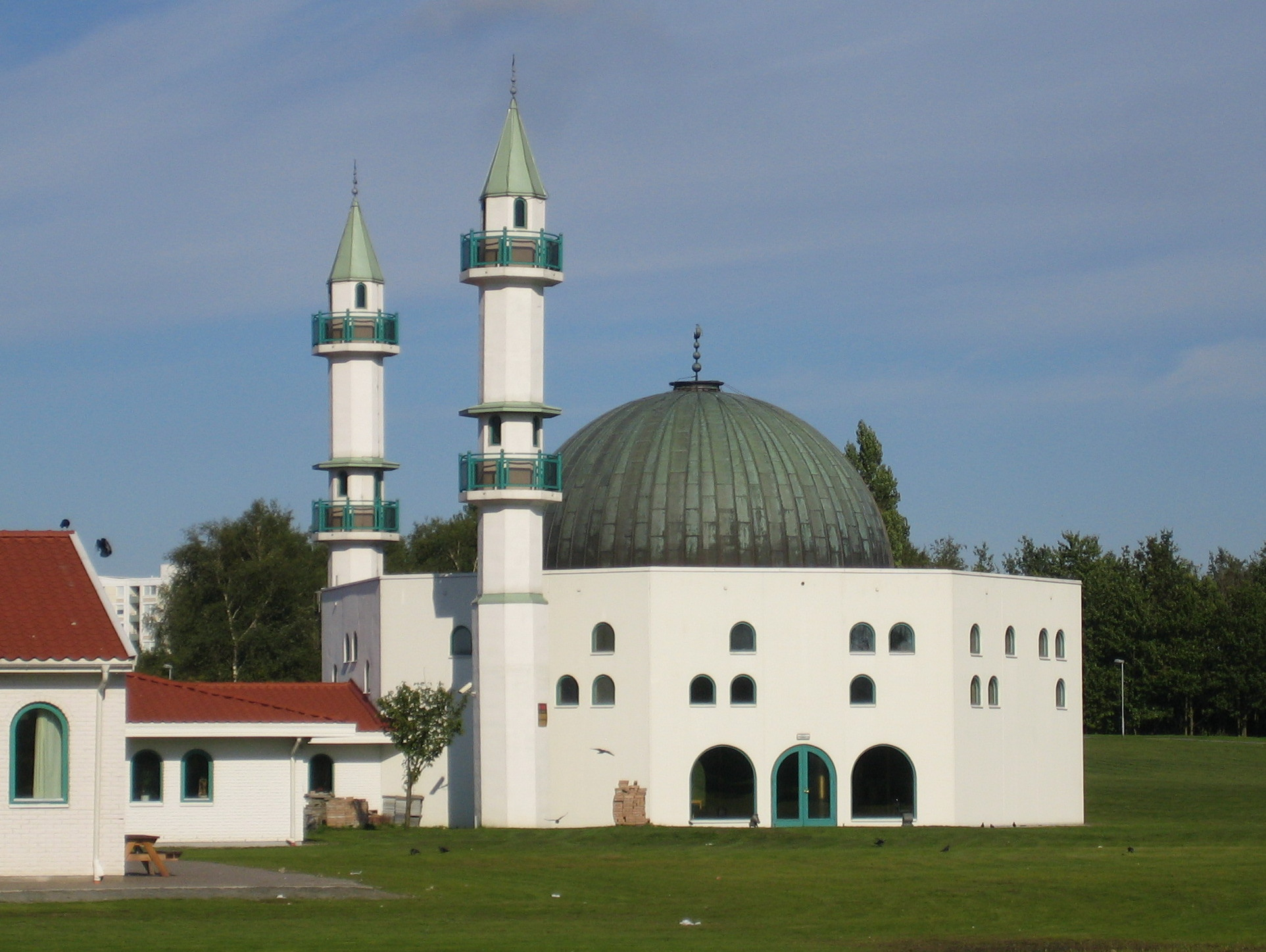 The main mosque in Malmö, Sweden